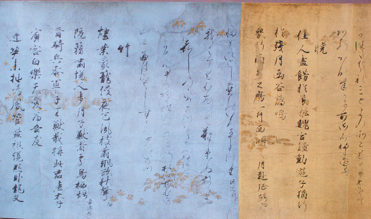 A part of the handscroll of Wakan rōeishū. Nickname: OHTA-GIRE, ink on decorated paper(gold drawings on paper printed and dyed). Height 25cm, One of two handscrolls in Seikado Museum, Tokyo, Japan, Late 11th century, Heian period, Japan